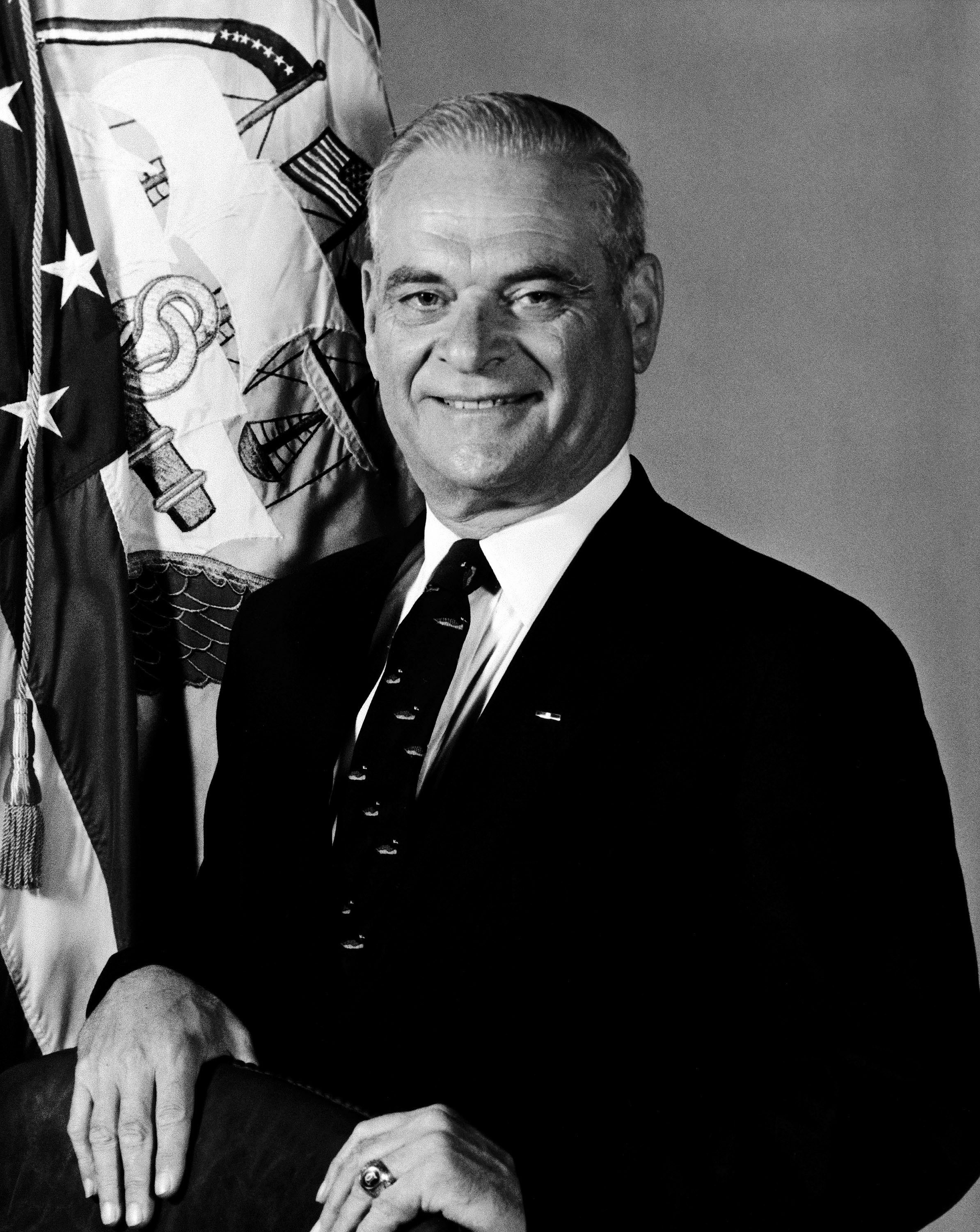 Portrait of the Honorable Joseph K. Taussig Jr., deputy assistant secretary of the Navy (Civilian Personnel Policy/Equal Employment Opportunity). National Archives identifier 6370254. DoD identifier DNSN8303952. From Series: Combined Military Service Digital Photographic Files, 1982 - 2007 Record Group 330: Records of the Office of the Secretary of Defense, 1921 - 2008